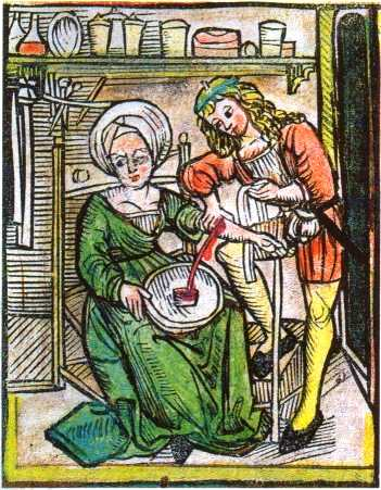 Bloodleting in the Middle Ages